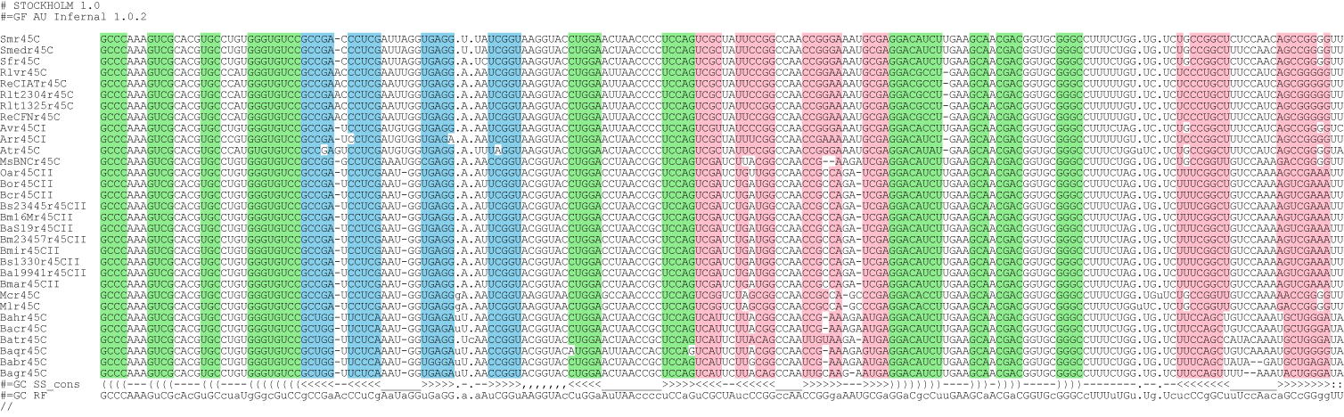 C45 annotated alignment structure conservation